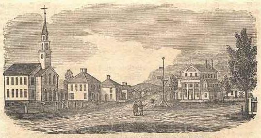 Southeastern View of the Central Part of Randolph (in Massachusetts), a woodcut print from John Warner Barber's Historical Collections, 1839; published by Dorr, Howland & Company, Worcester, Massachusetts.